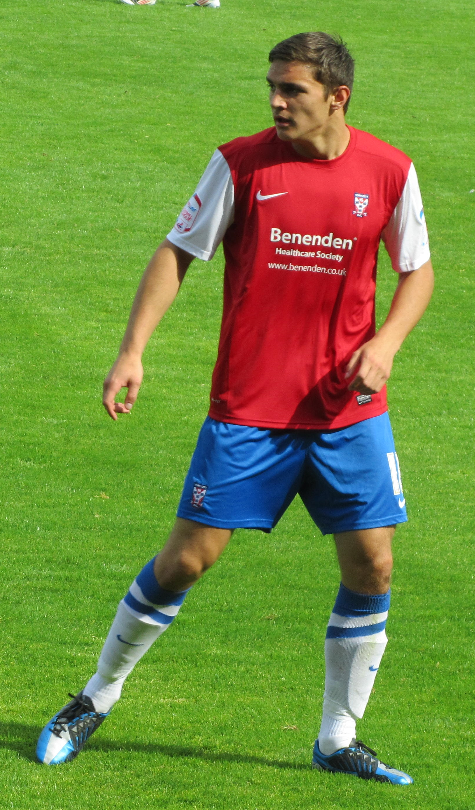 Tom Platt playing for York City against Oldham Athletic at Bootham Crescent, York on 21 July 2012